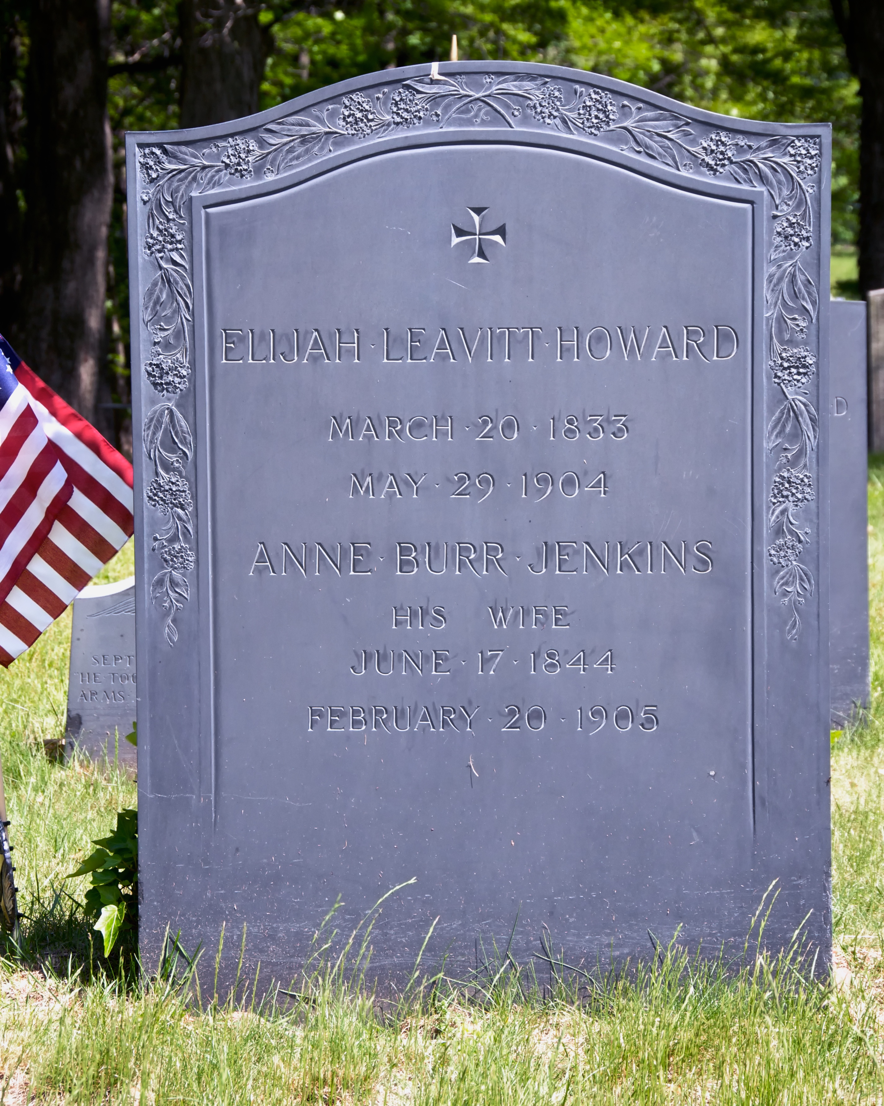 Gravestone of Elijah Leavitt Howard (1833-1904), Hingham Center Cemetery, Hingham, Massachusetts